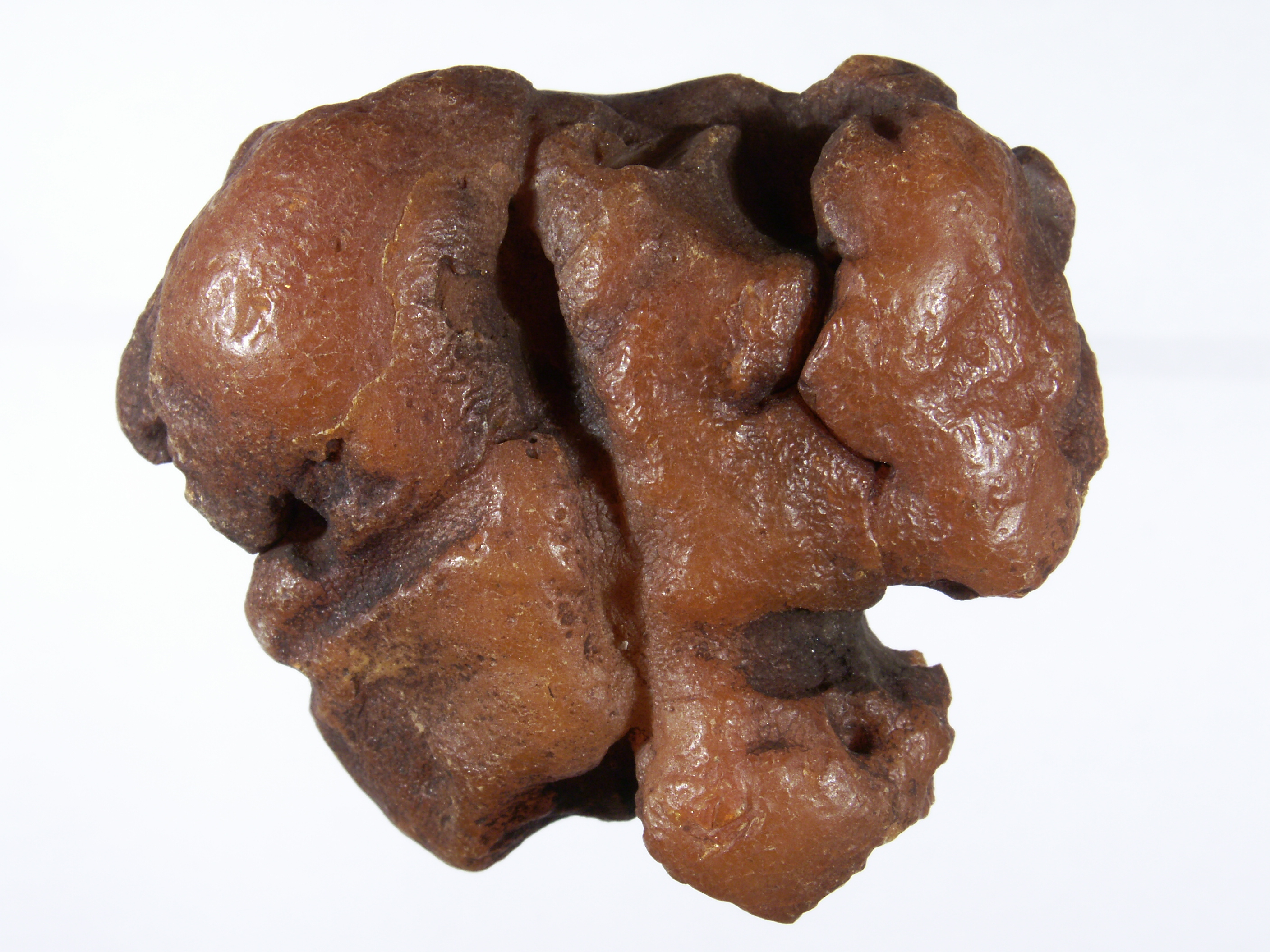 Amber from Bitterfeld, durglessite